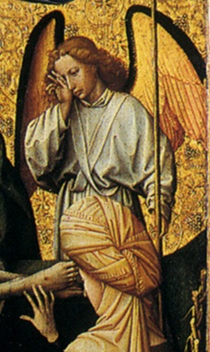 Triptych with the Entombment of Christ, Oil on panel, 60 x 48.9 cm (central panel without frame), 60 x 22.5 cm (wing without frame)